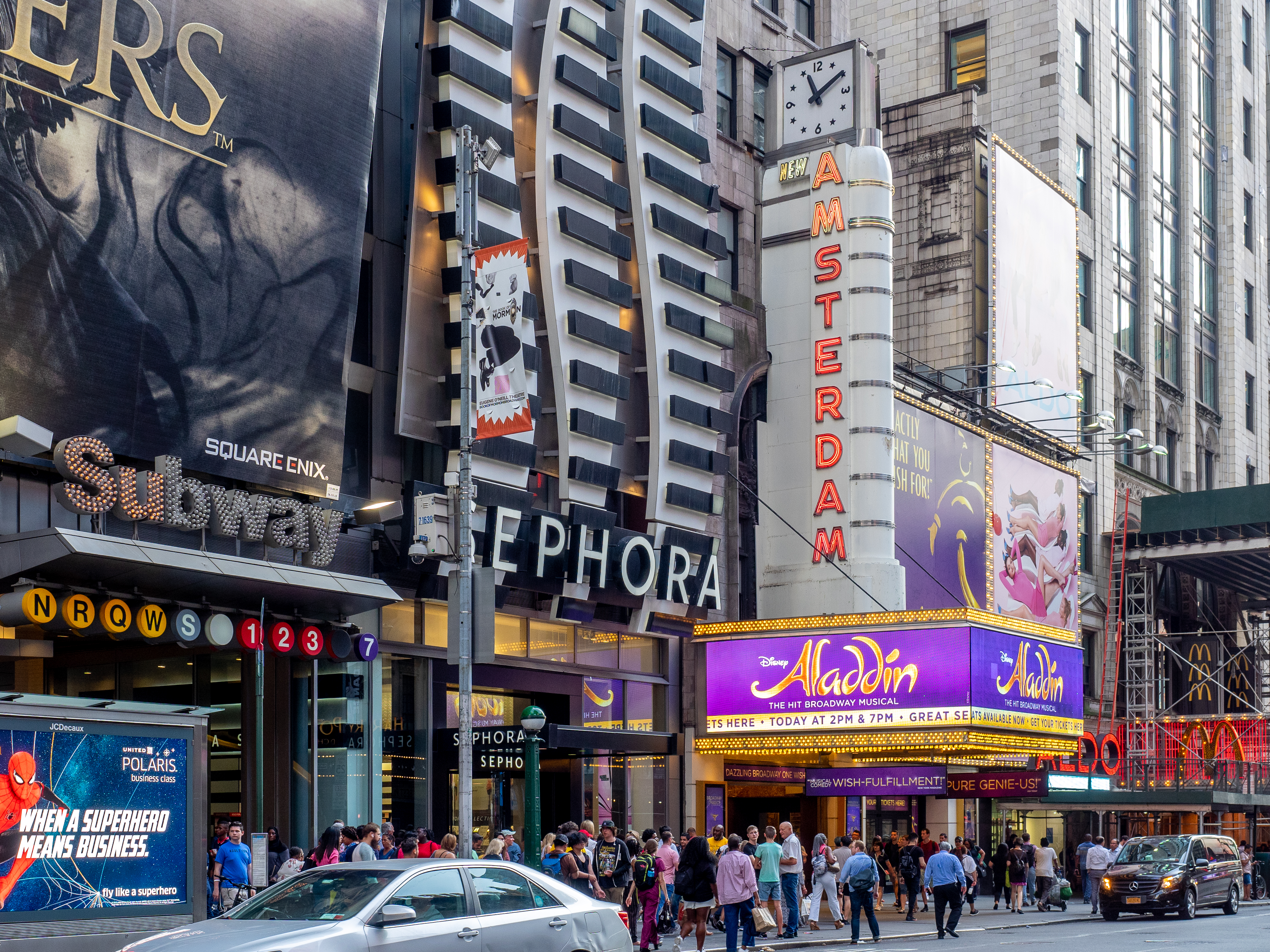 Theater District, Midtown Manhattan, NYC